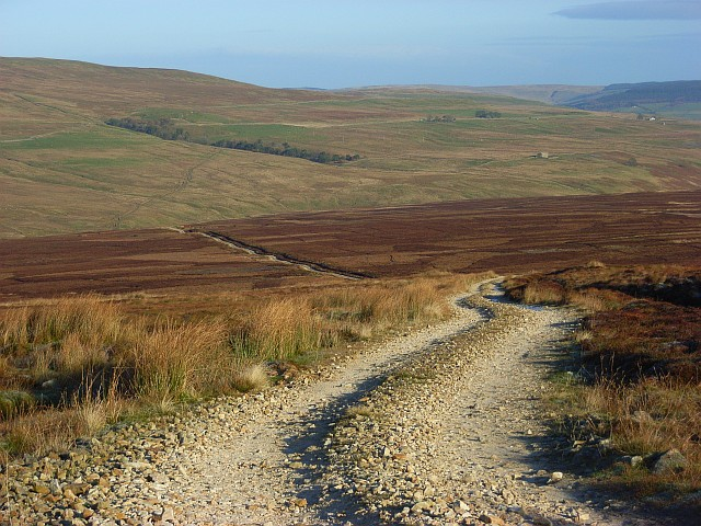 Maiden Way This is a Roman Road and heads towards Whitley Castle at Kirkhaugh. It was taken from where the track heads southeast to Smittergill Head. This is the more prominent of the two ways to the south.